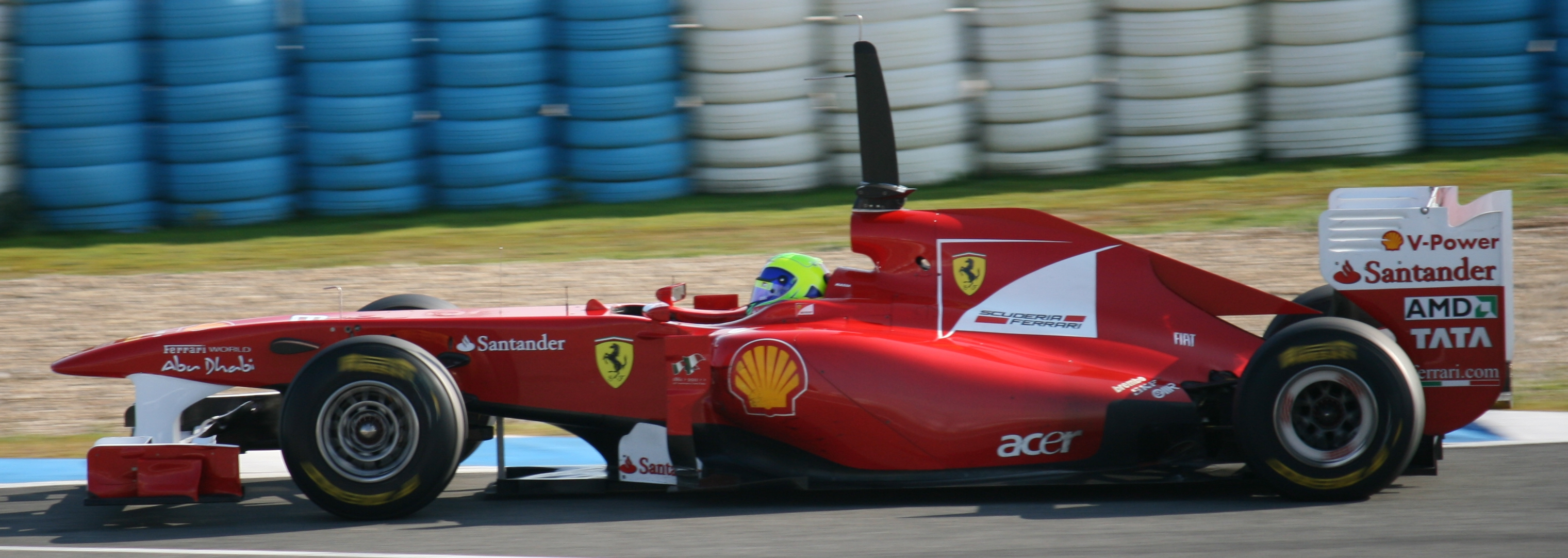 Felipe Massa testing for Scuderia Ferrari at Jerez.